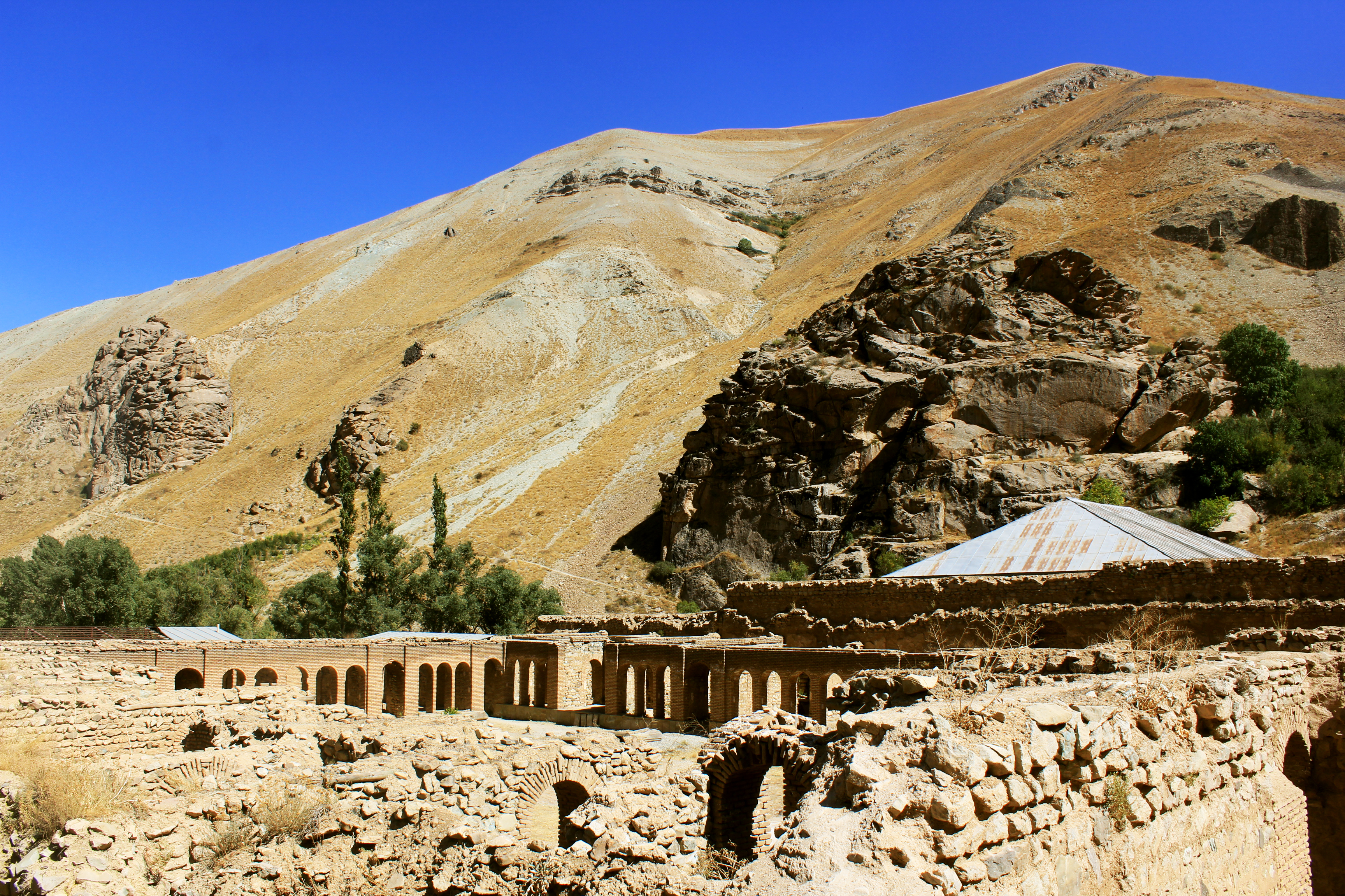 nasereddin shah qajar summer place